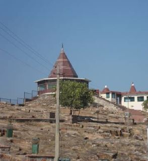 Badi pahari Bihar Shariff